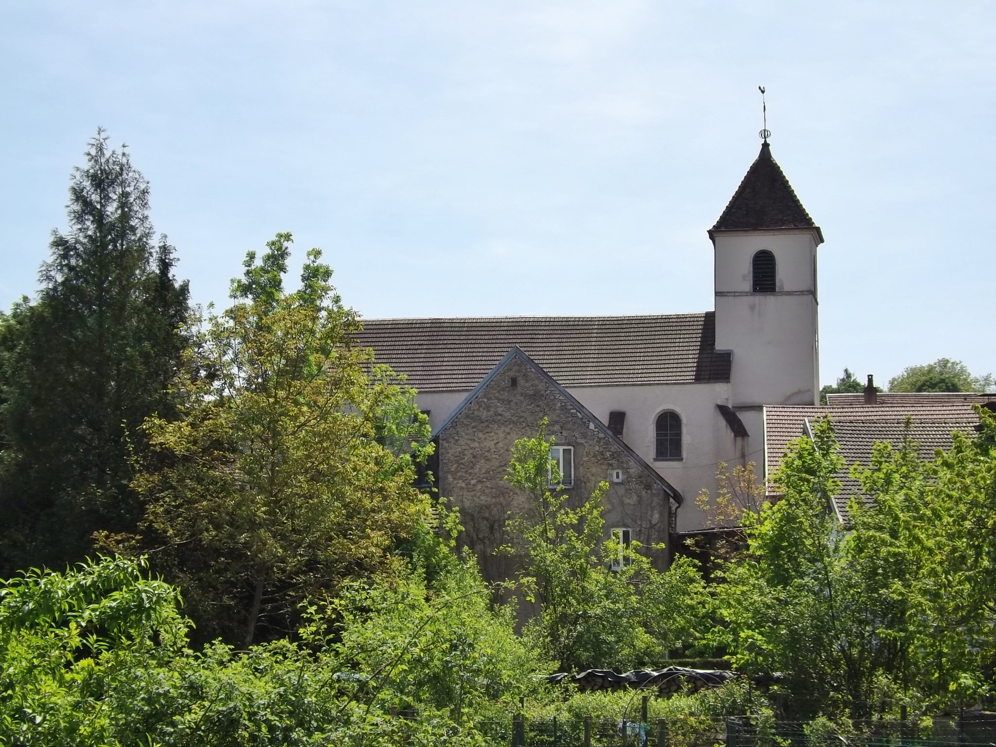 Sight of the church of Geneuille, near Besançon in Doubs, France.